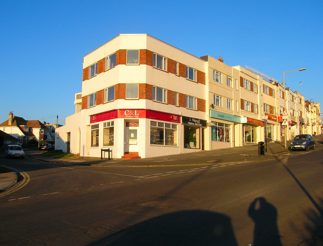 Longridge Avenue Shops The main shopping street in Saltdean was purpose built in the 1930s. The road on the left is Withyam Avenue.